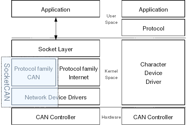 Socketcan layering